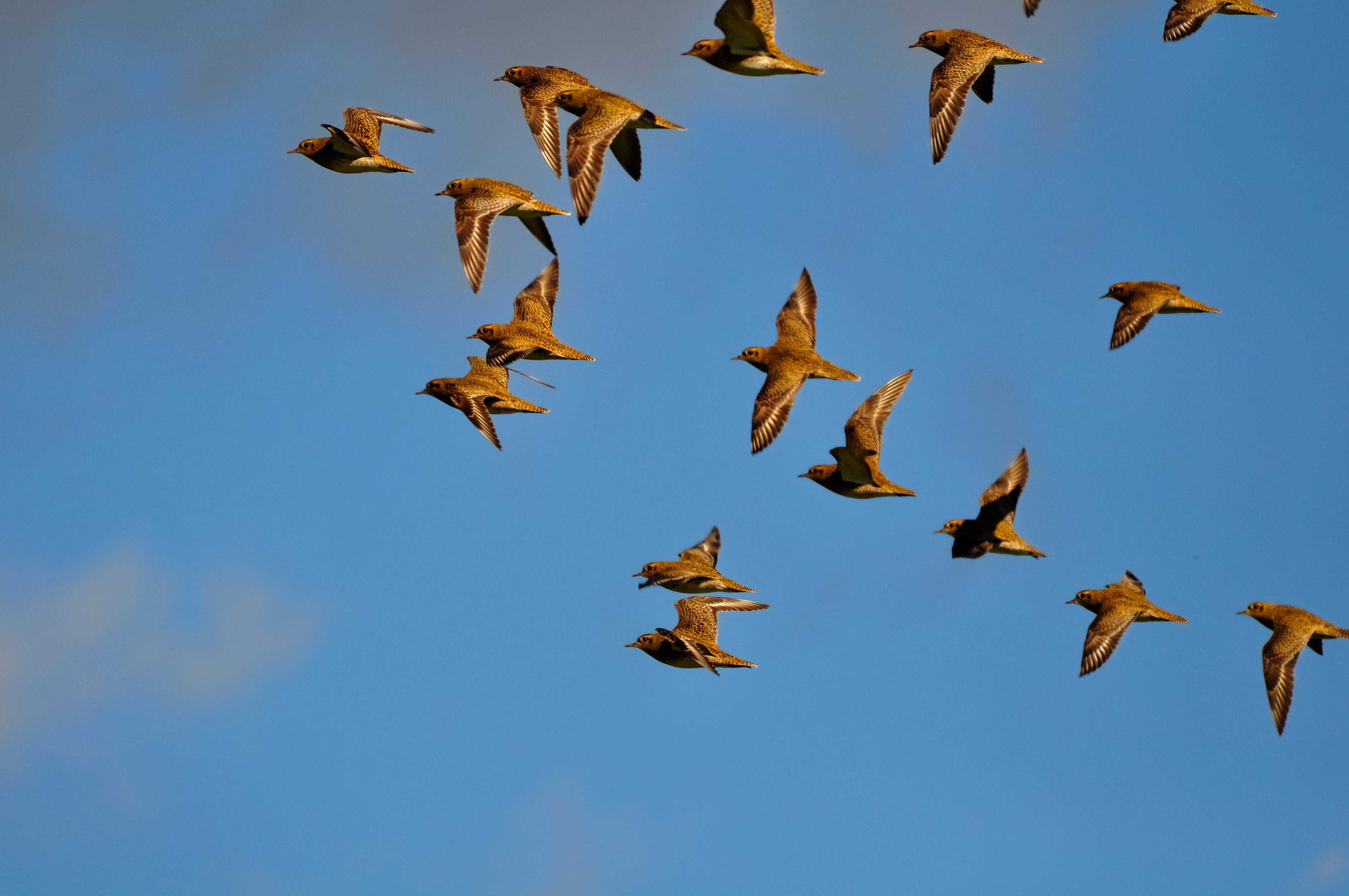 A flock of European Golden Plovers in winter plumage flying in Spain.